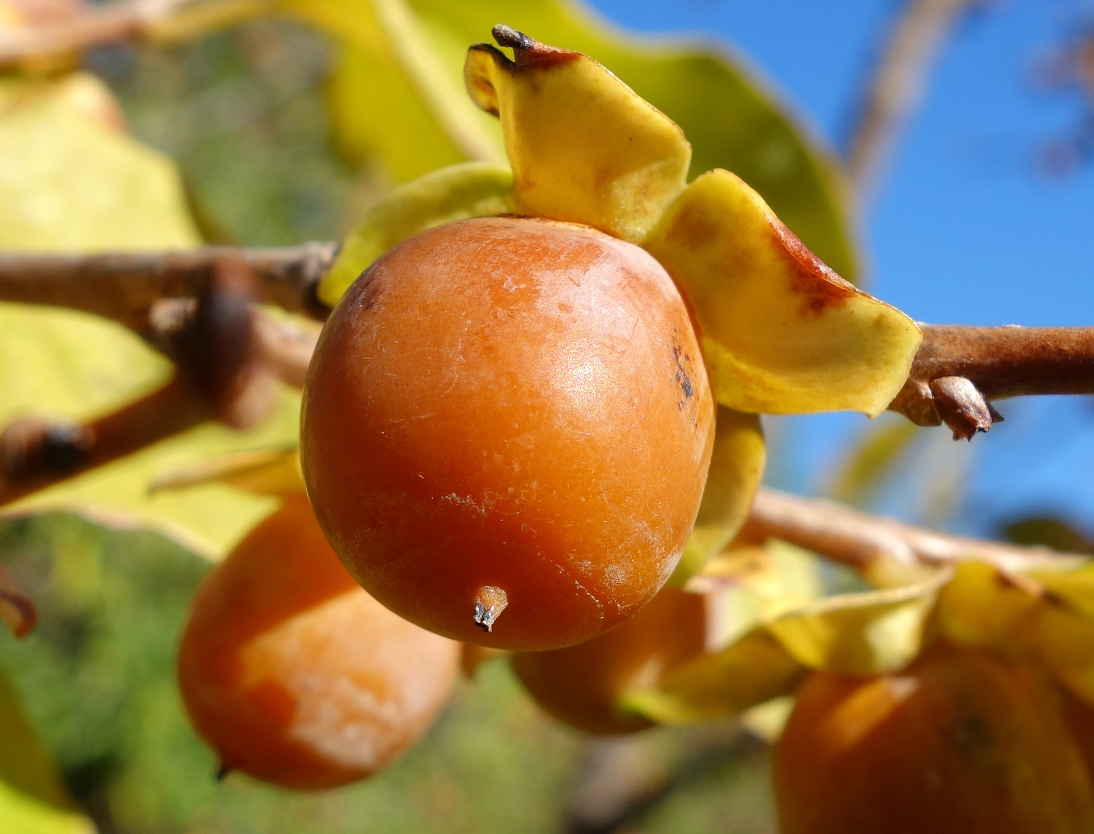 Botanical specimen in Quarryhill Botanical Garden, Glen Ellen, California, USA.